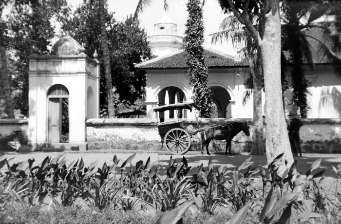 Carriage in front of the mosque